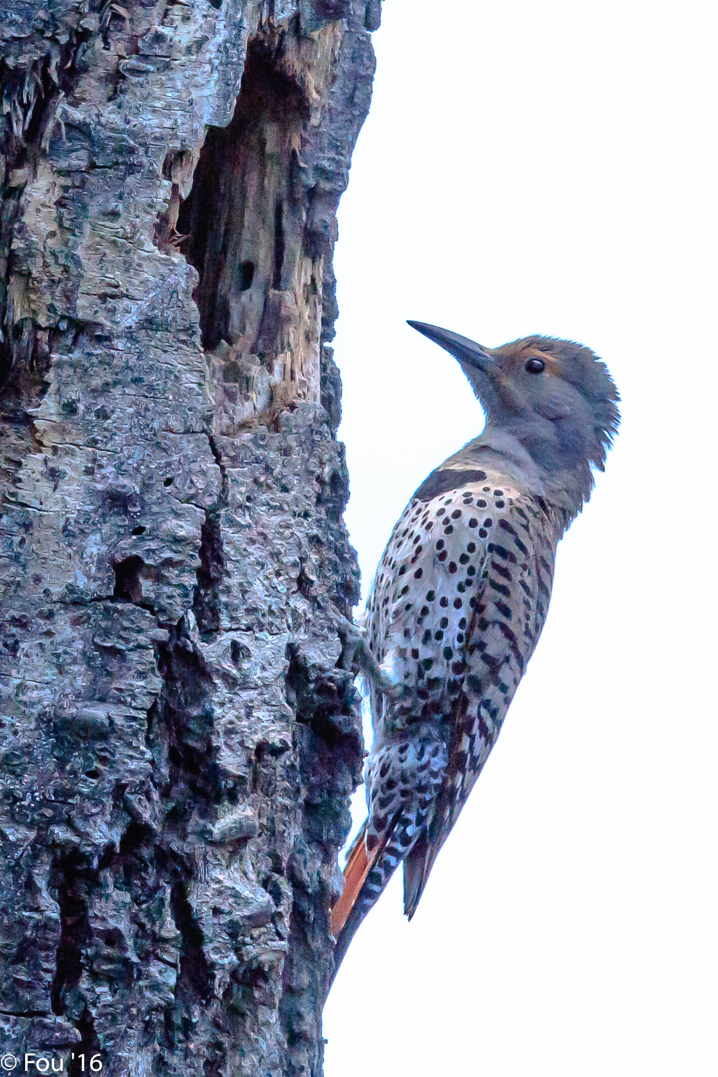 an early morning visit to Isabel Lake...female Northern Flicker (Colaptes auratus) at nesting cavity...